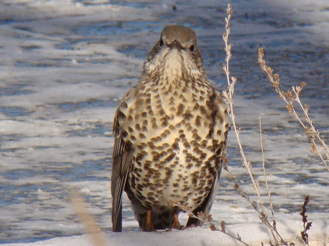 Turdus viscivorus in Baikonur-town, Kazakhstan